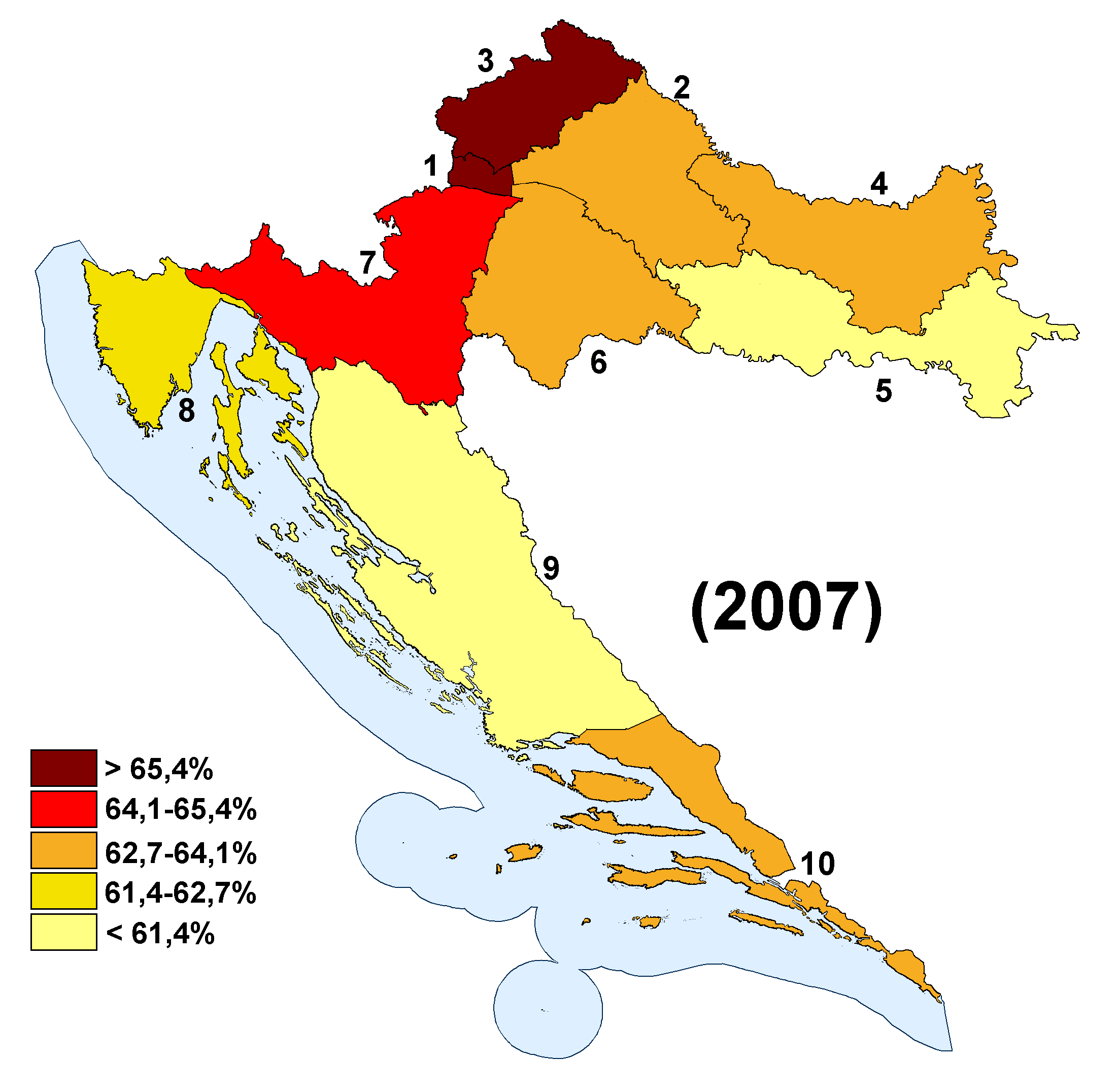 Croatia: Election turnout for 2007